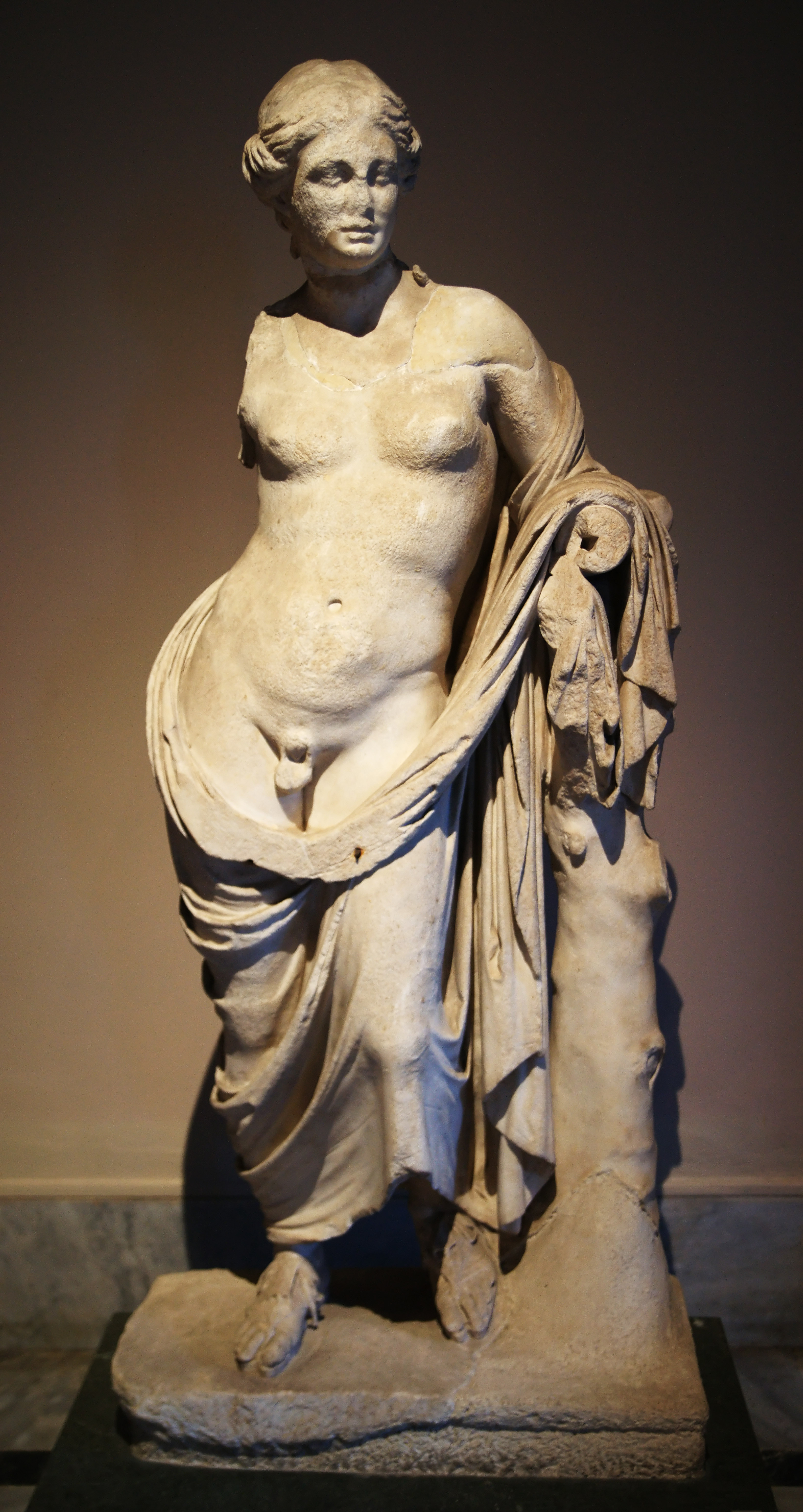 Statue of Hermaphroditus, Marble, Pergamum, Hellenistic style, 3rt ct. BC. Istanbul Archaeological Museums inv. no. 363 T (Mendel 624)